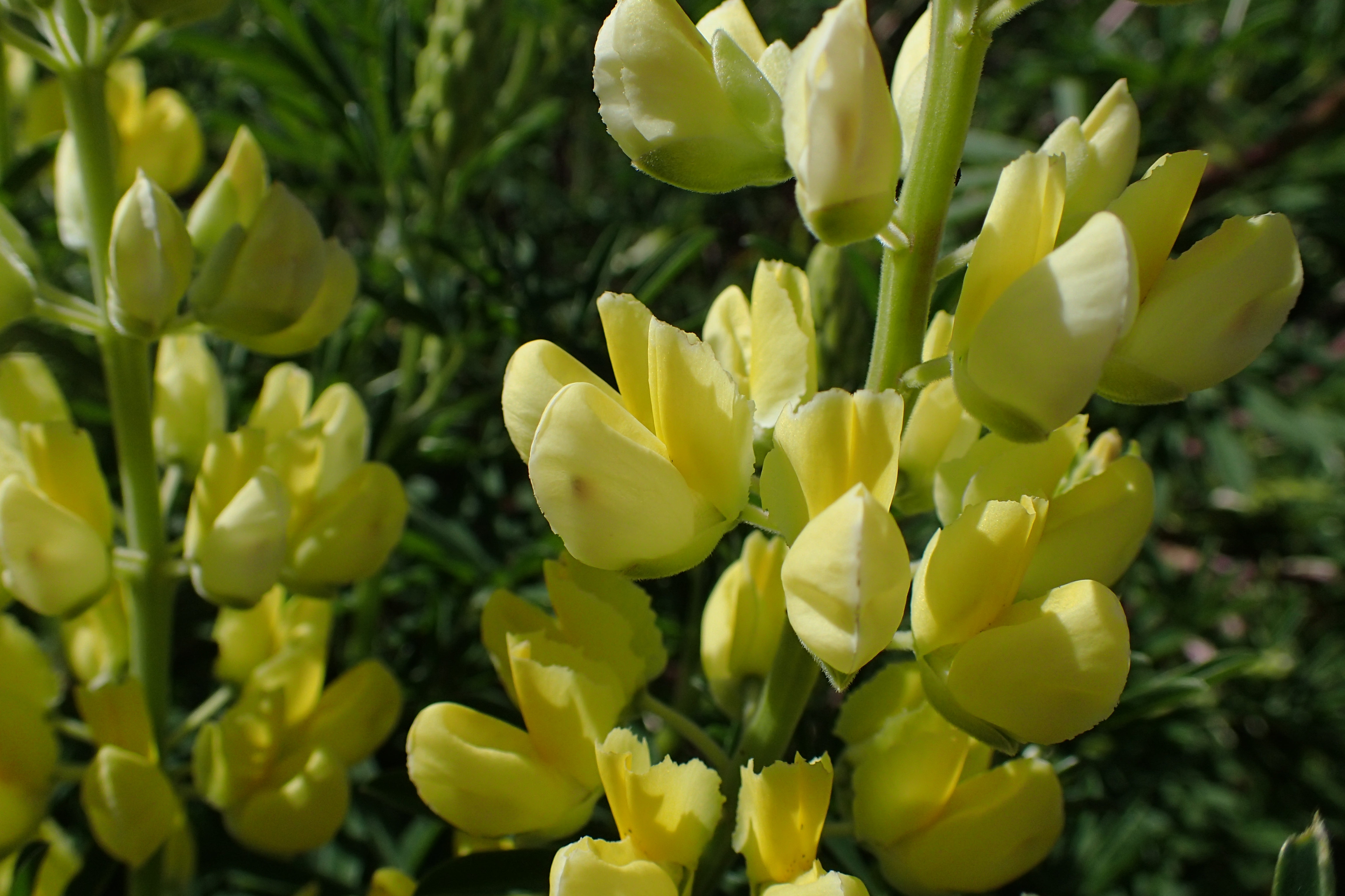 Lupinus arboreus in Te Anau, Southland (New Zealand)